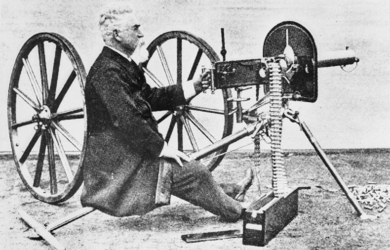 The Invention of the Machine Gun Hiram Maxim sits with the first portable, fully automatic machine gun, which he invented, and a Dundonald gun carriage.